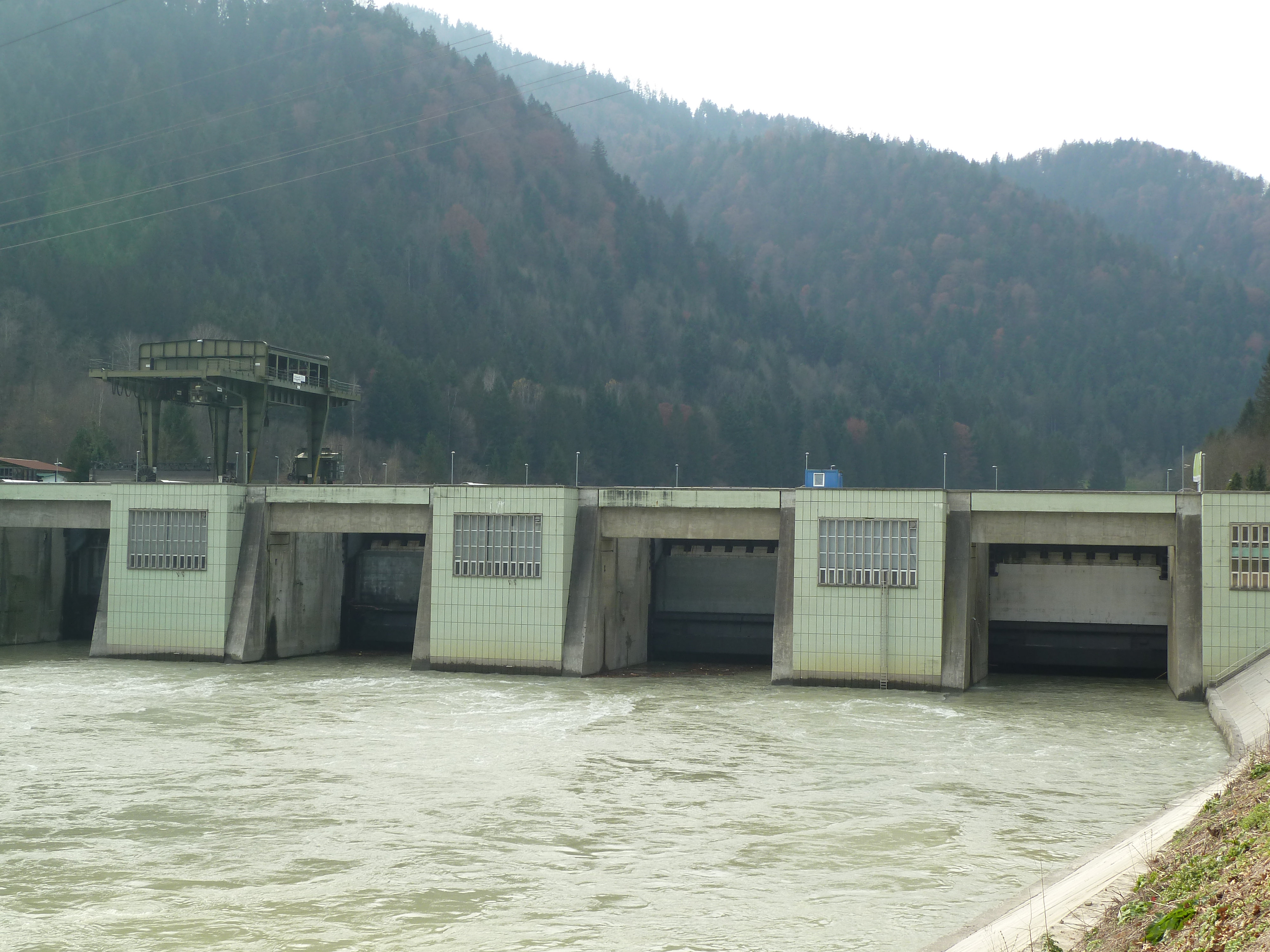 Power plant Vuhred on Drava River, Slovenia.